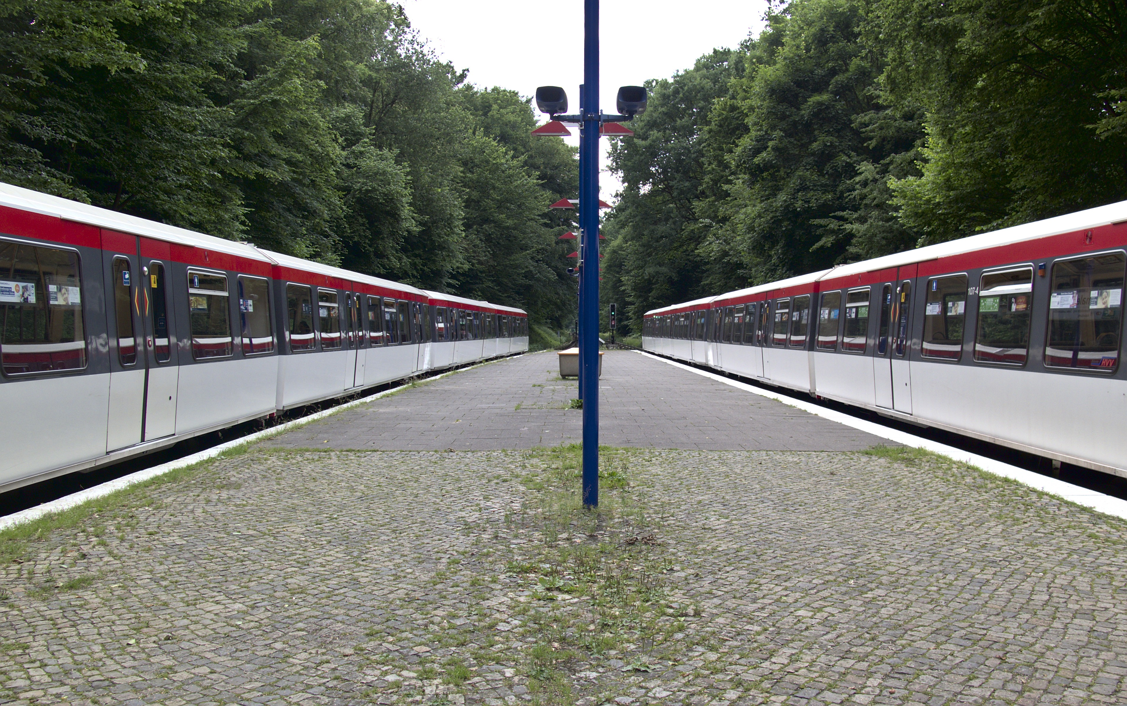 2 DT4 trains meet in the station Schmalenbeck